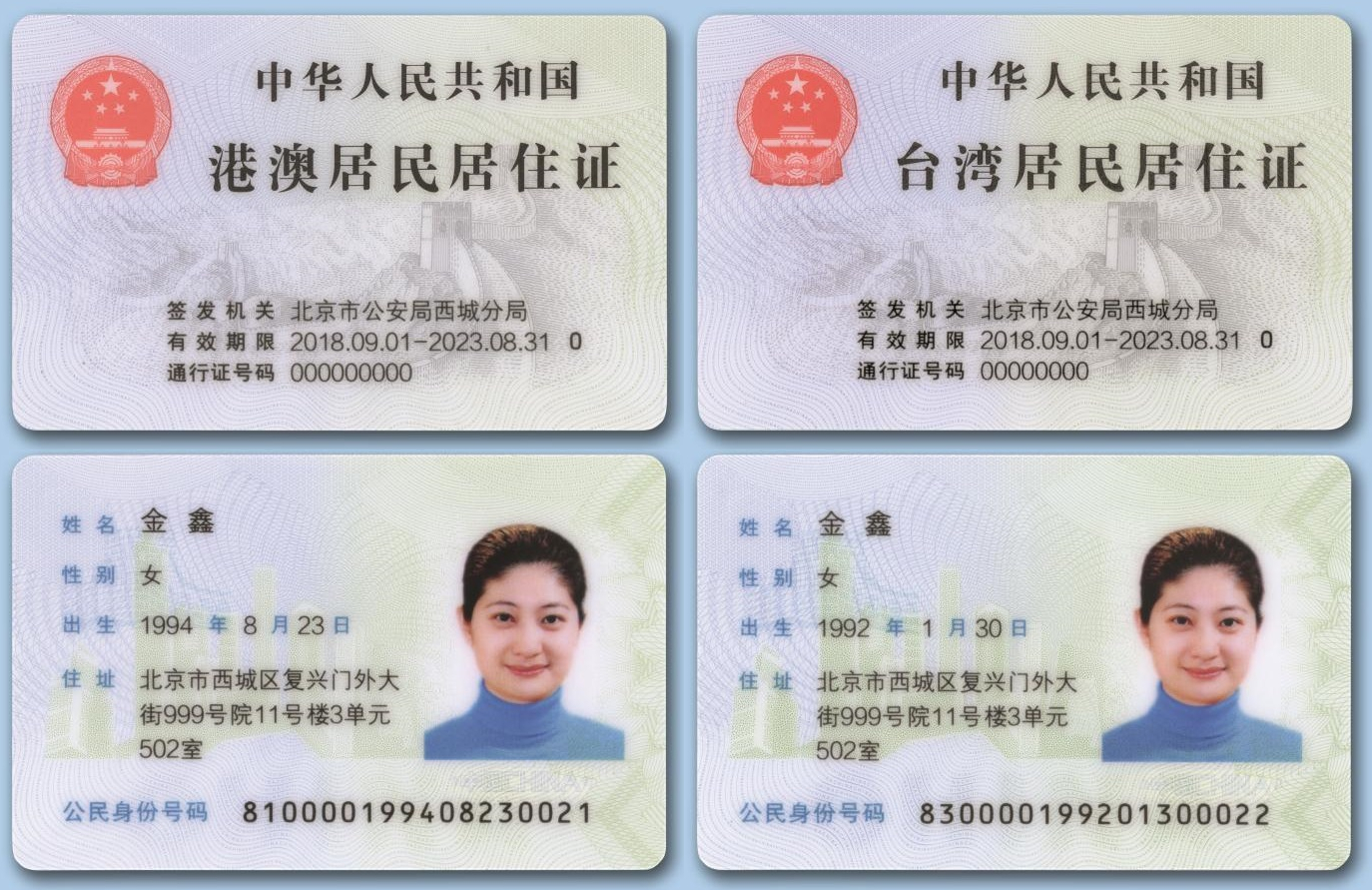 Sample of Hong Kong, Macao and Taiwan residents' residence permit